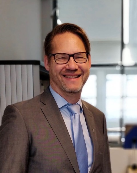 picture of professor Jerry Westerweel at the Delft University of Technology in 2018